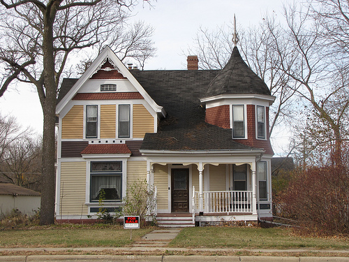 The Ernst Osbeck House in Lake Benton Minnesota. On the National Register of Historic Places.